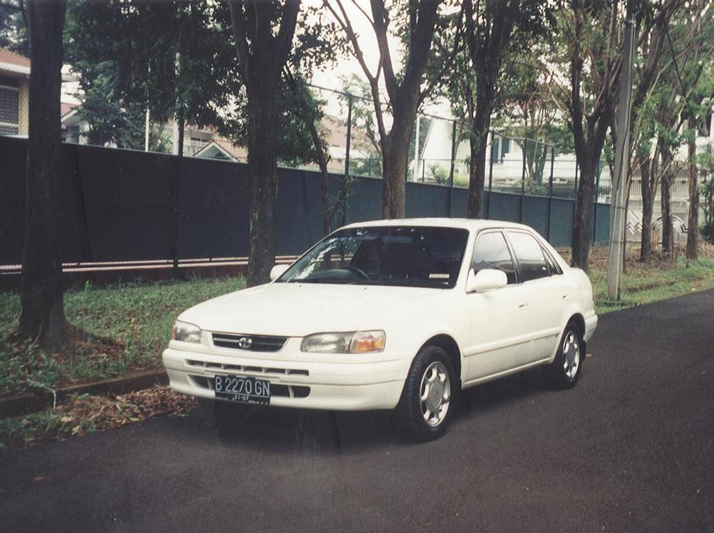 1997 Toyota Corolla (AE111) SEG 1.6i sedan, photographed in Indonesia.